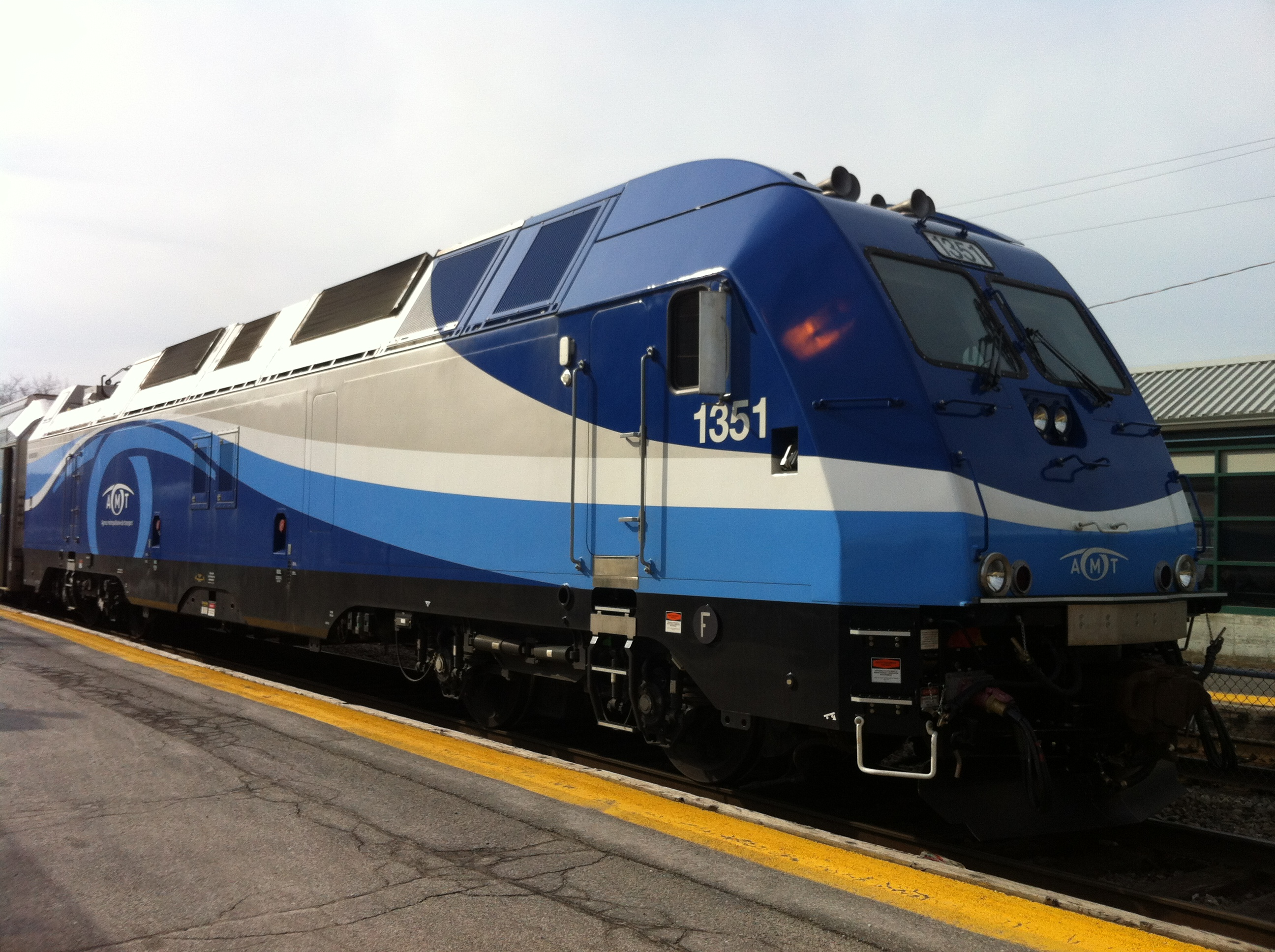 An AMT Train pulled by an ALP-45DP at Parc Station in Montreal.